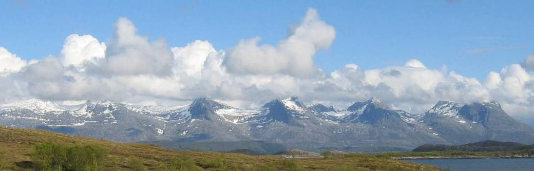 The mountain range "De syv søstre" (Norway) as seen eastwards from the Dønna island